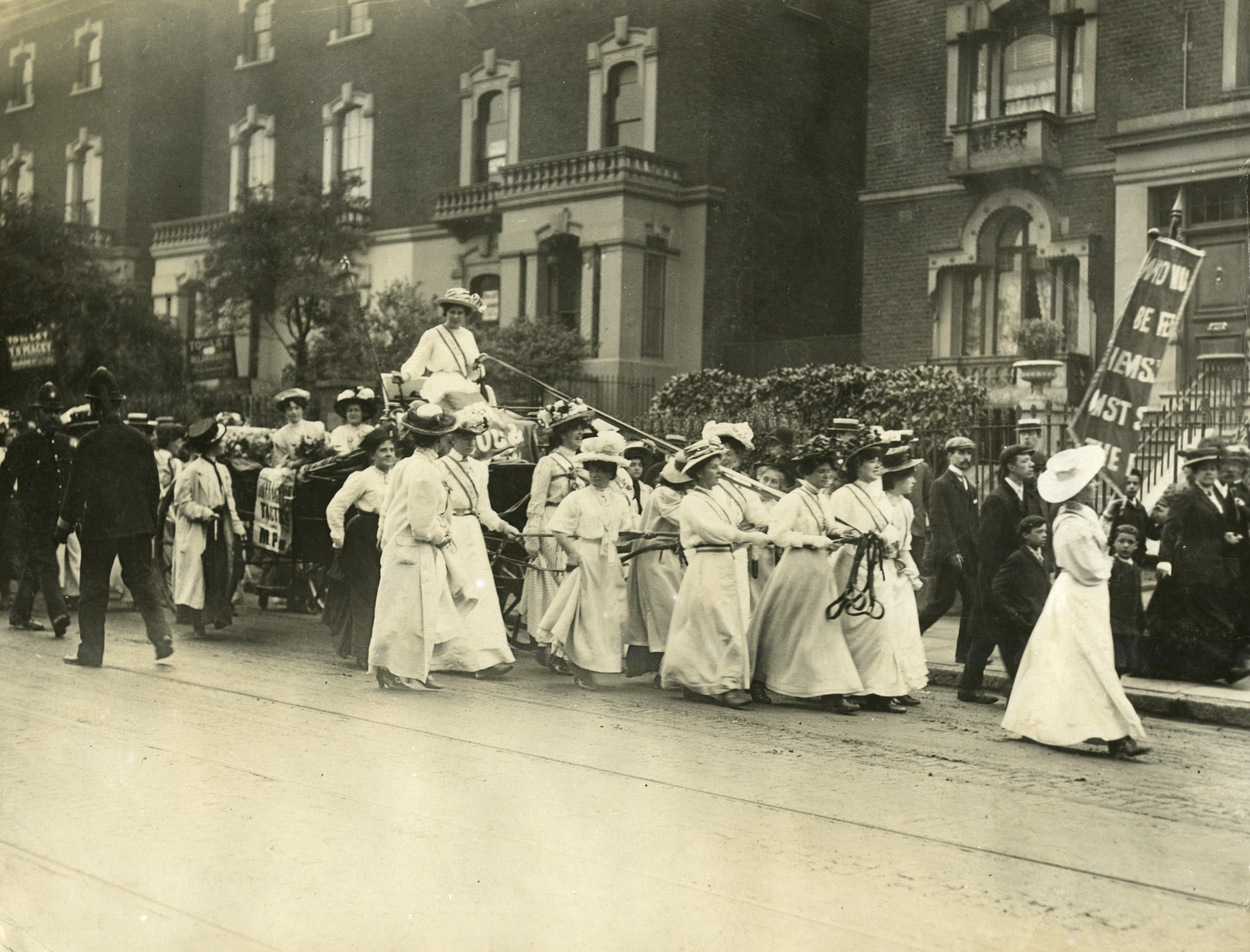 7JCC/O/02/045 Photograph, printed, paper, monochrome, three lines of women in pulling the carriage bearing Edith New and Mary Leigh, stuck on to paper; manuscript inscriptions round image 'The released prisoners' carriage being drawn from Holloway to Queen's Hall, Aug 22 '08' and 'London News Agency Photos, 46 Fleet Street'